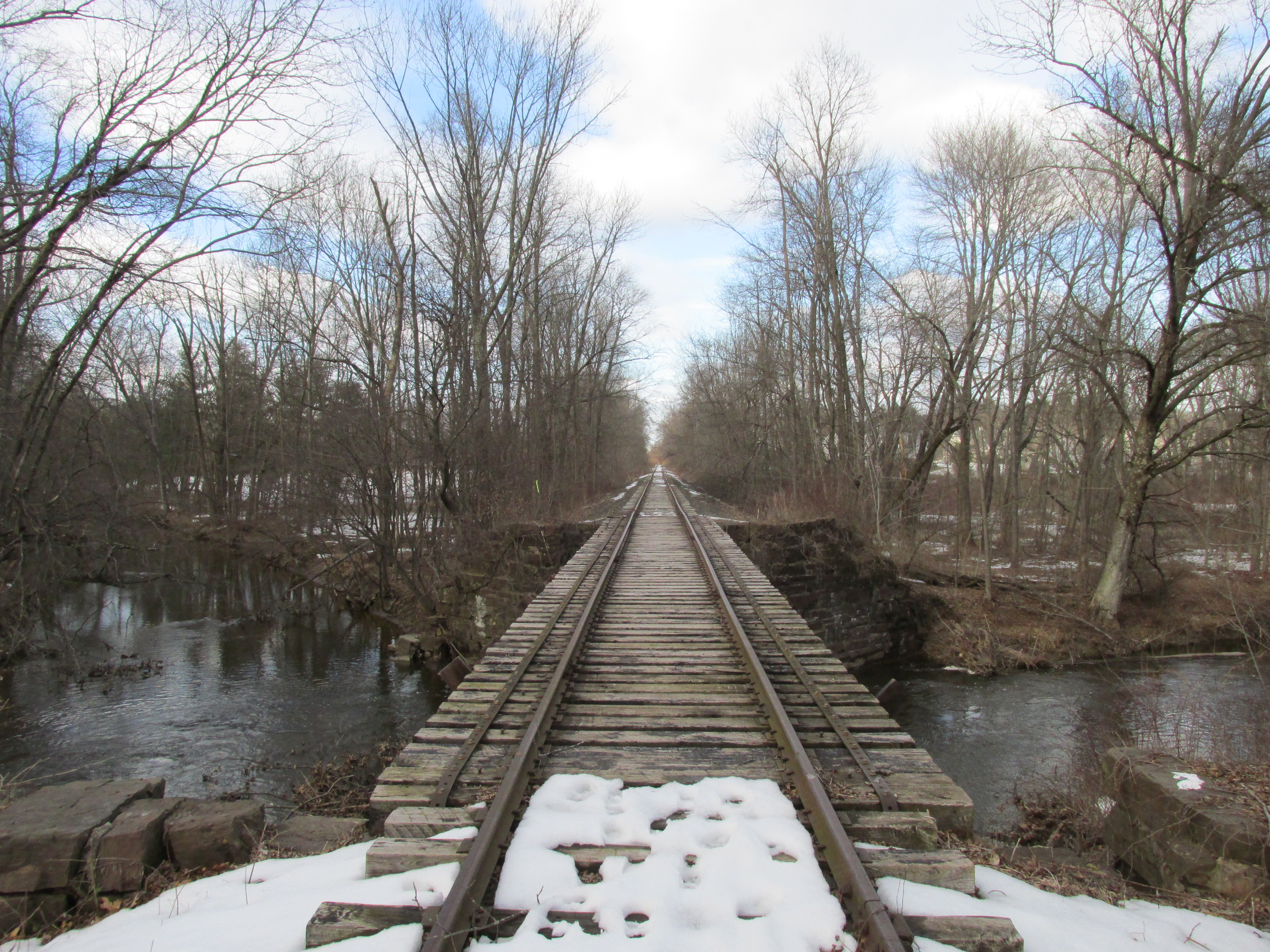 Tracks on the ex-New Haven Railroad Suffield Branch leading to Suffield Depot, Suffield Depot Connecticut